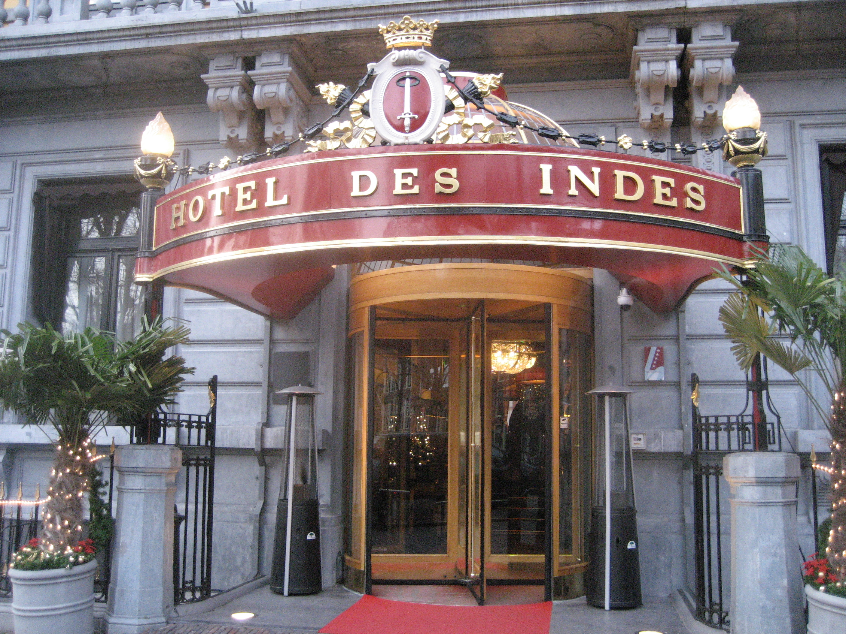 Entrance of Hotel des Indes The Hague (the Netherlands)